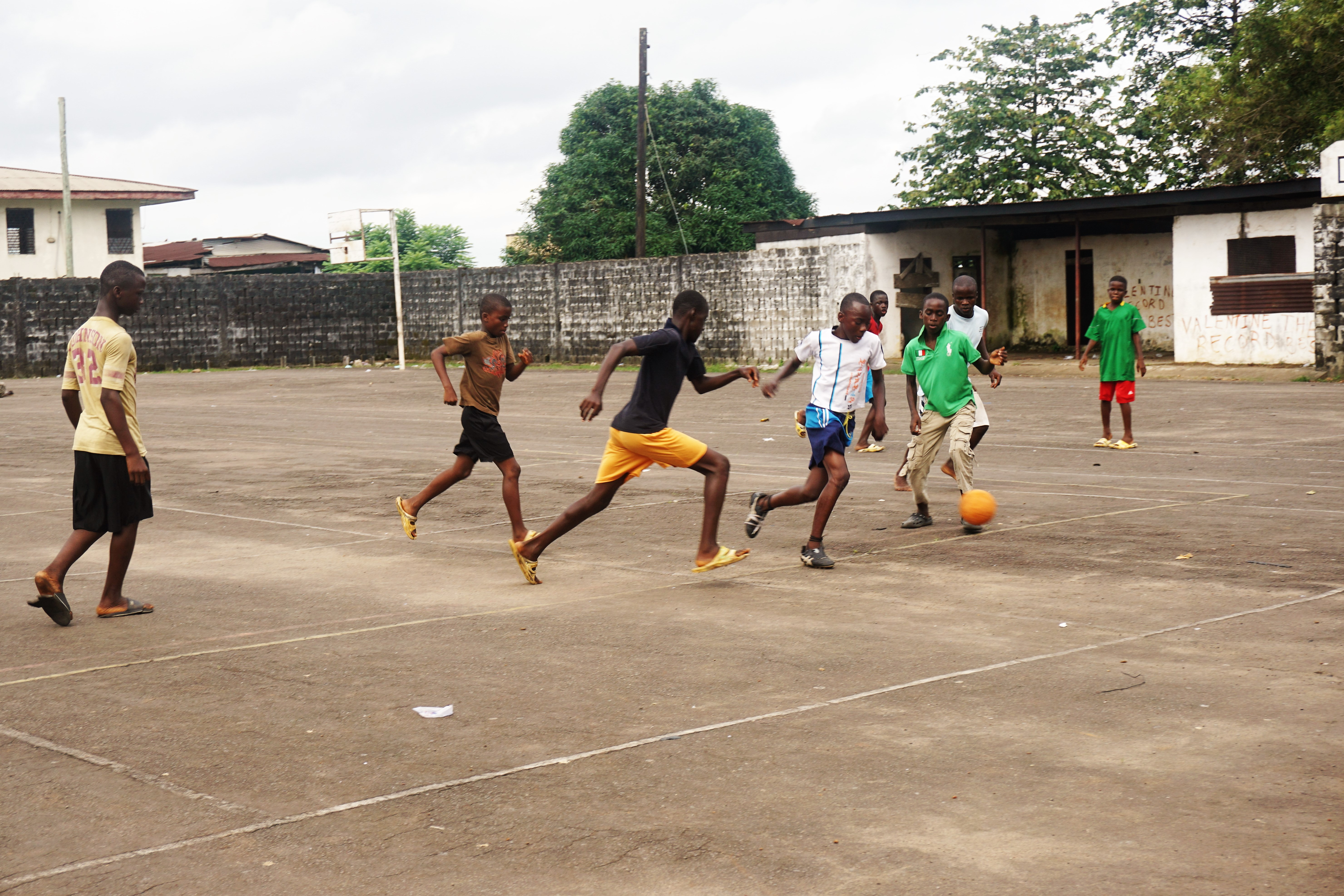 This is an image from Liberia